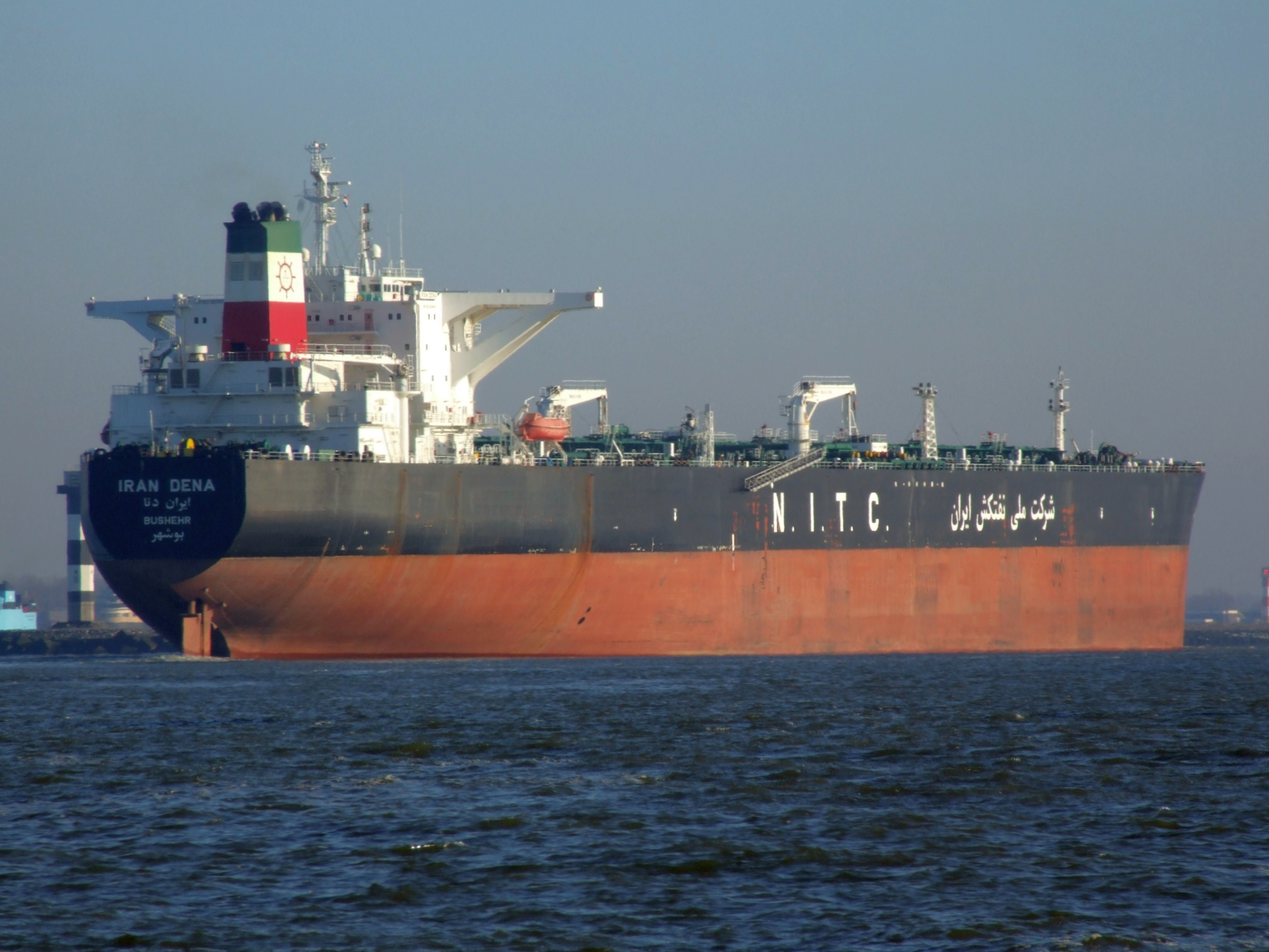 Iran Dena IMO 9218480 p8 approaching Port of Rotterdam, Holland 15-Dec-2007